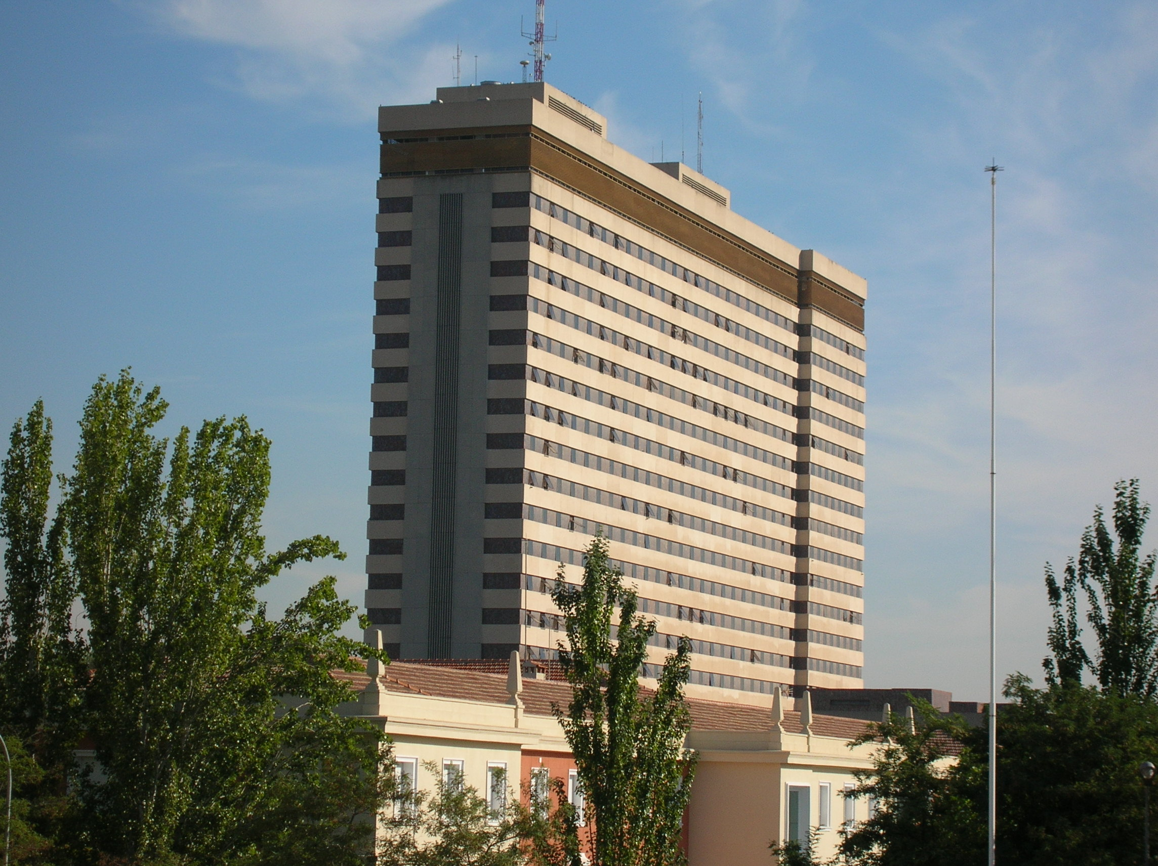 HOSPITAL CENTRAL DE LA DEFENSA